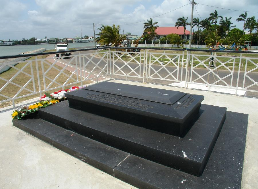 The Tomb of Baron Bliss in Belize City (Belize). "near the sea" as requested in his will.